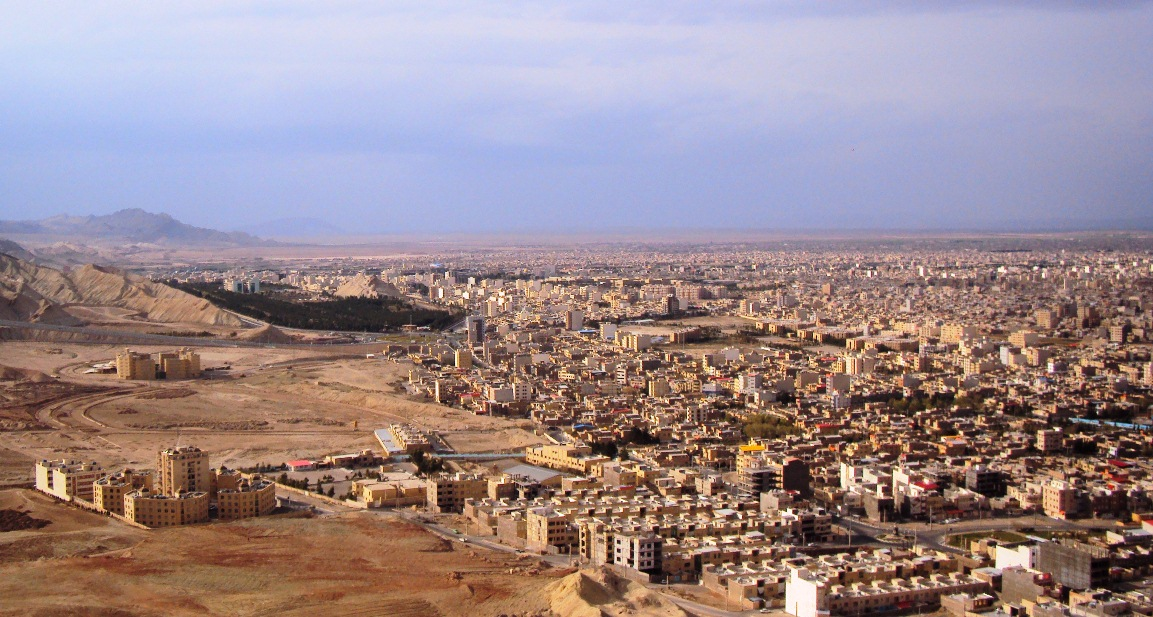 دورنمای شهر قم